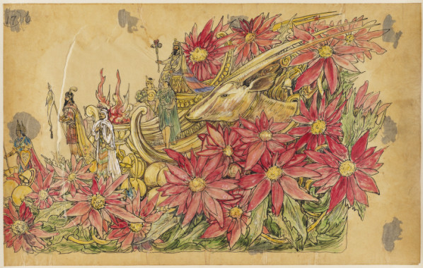 Float design from Mistick Krewe of Comus' 1910 parade, New Orleans. Float title: "King of Abyssinia".